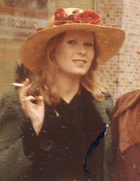 Efva Attling, as released by image creator Lars Jacob ProdPlace: 127 Kings Road, London, England, U.K.